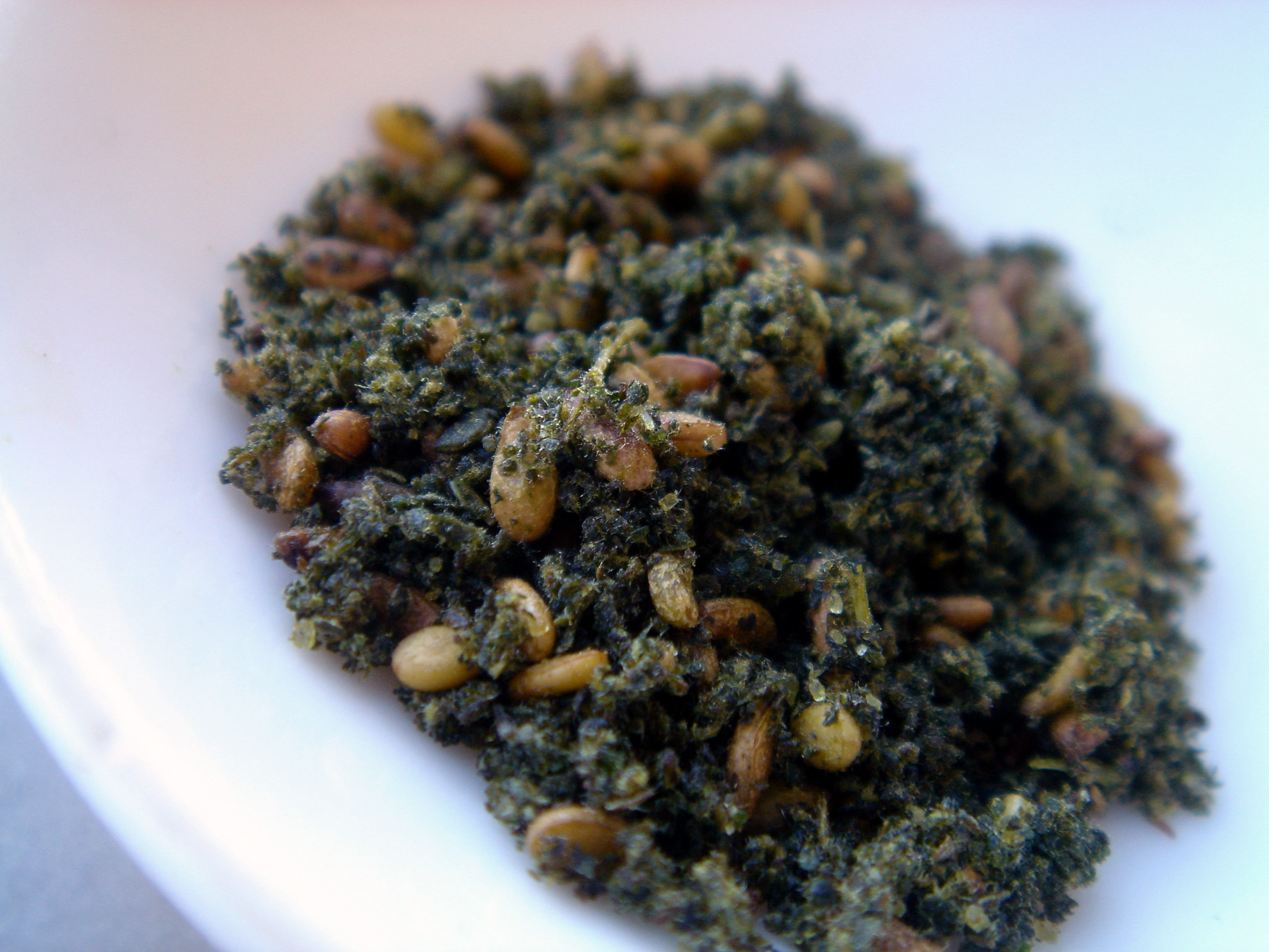 Zaatar by recipe of G. Massarweh